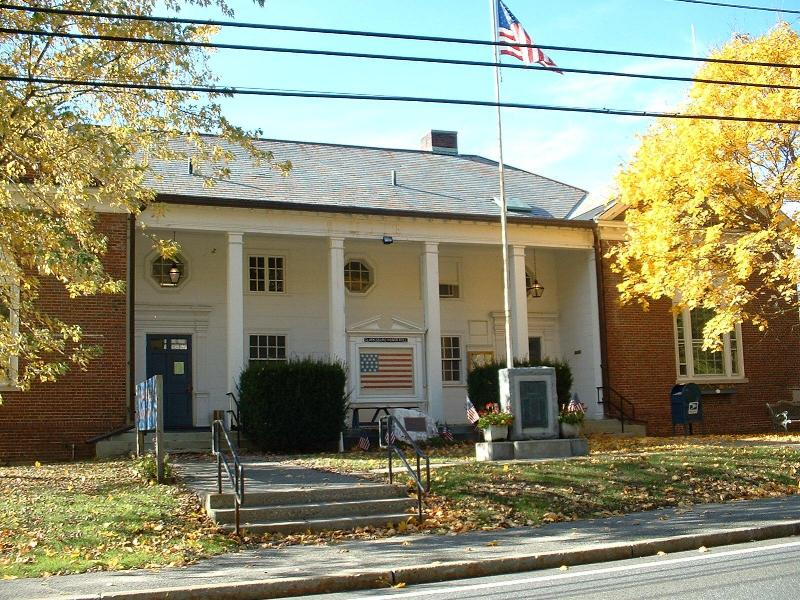 Clarksburg Town Hall in the fall. Clarksburg Town Hall, 111 River Road (Rte. 8), Clarksburg, MA 01247